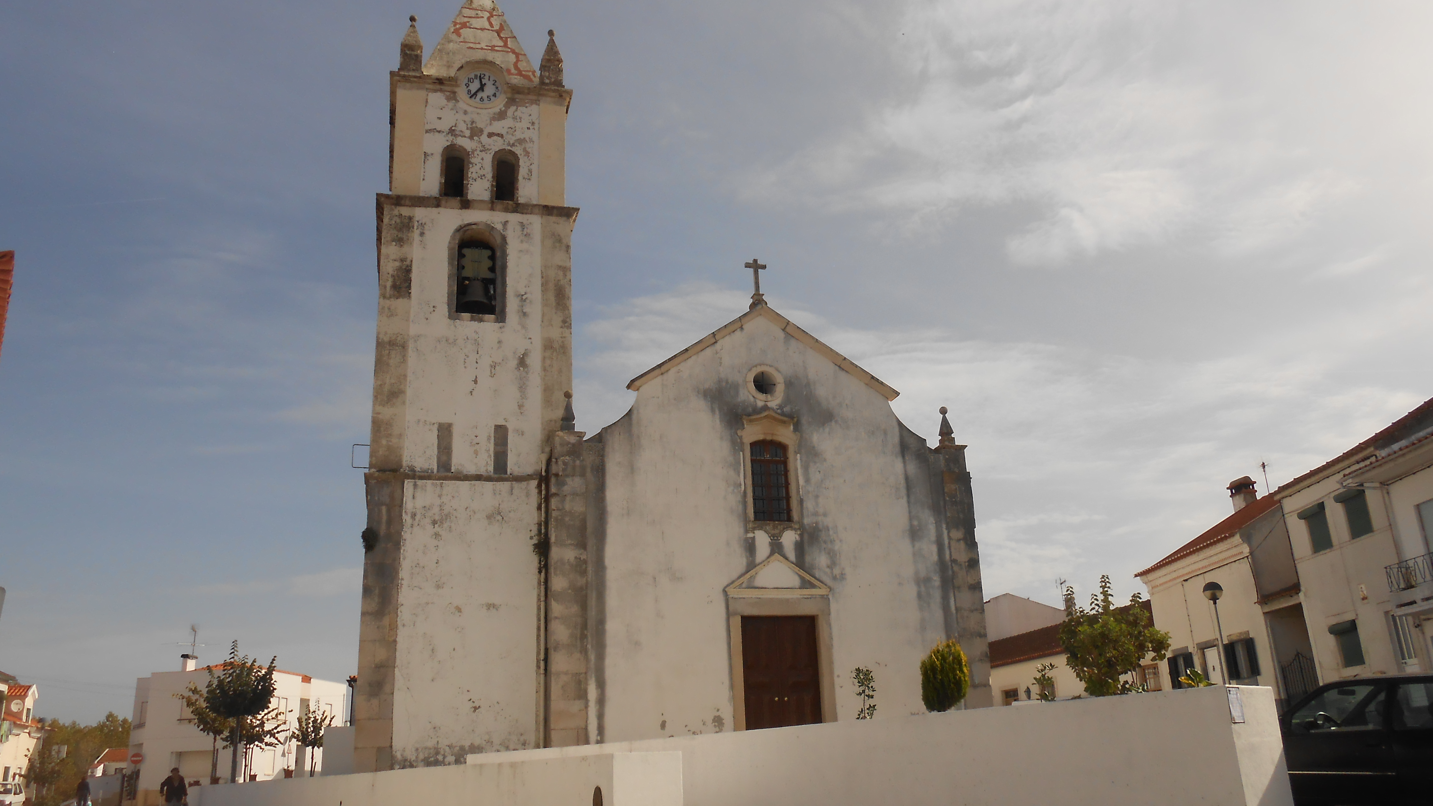 The parish church of Santo Varão, the Igreja Paroquial de Santo Varão, also named Igreja de São Martinho after its patron saint Saint Martin.